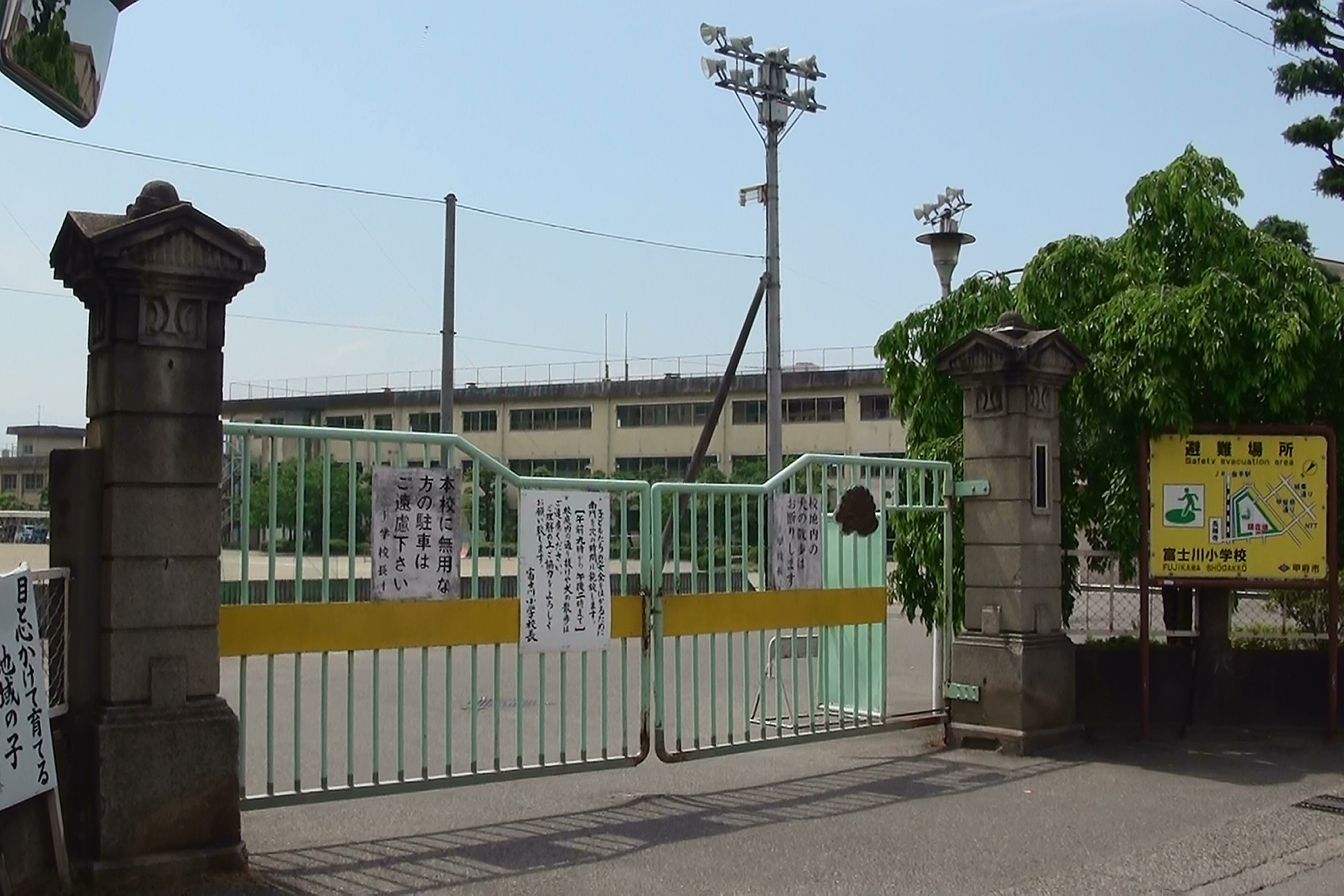 Fujikawa elementary school Kofu-city